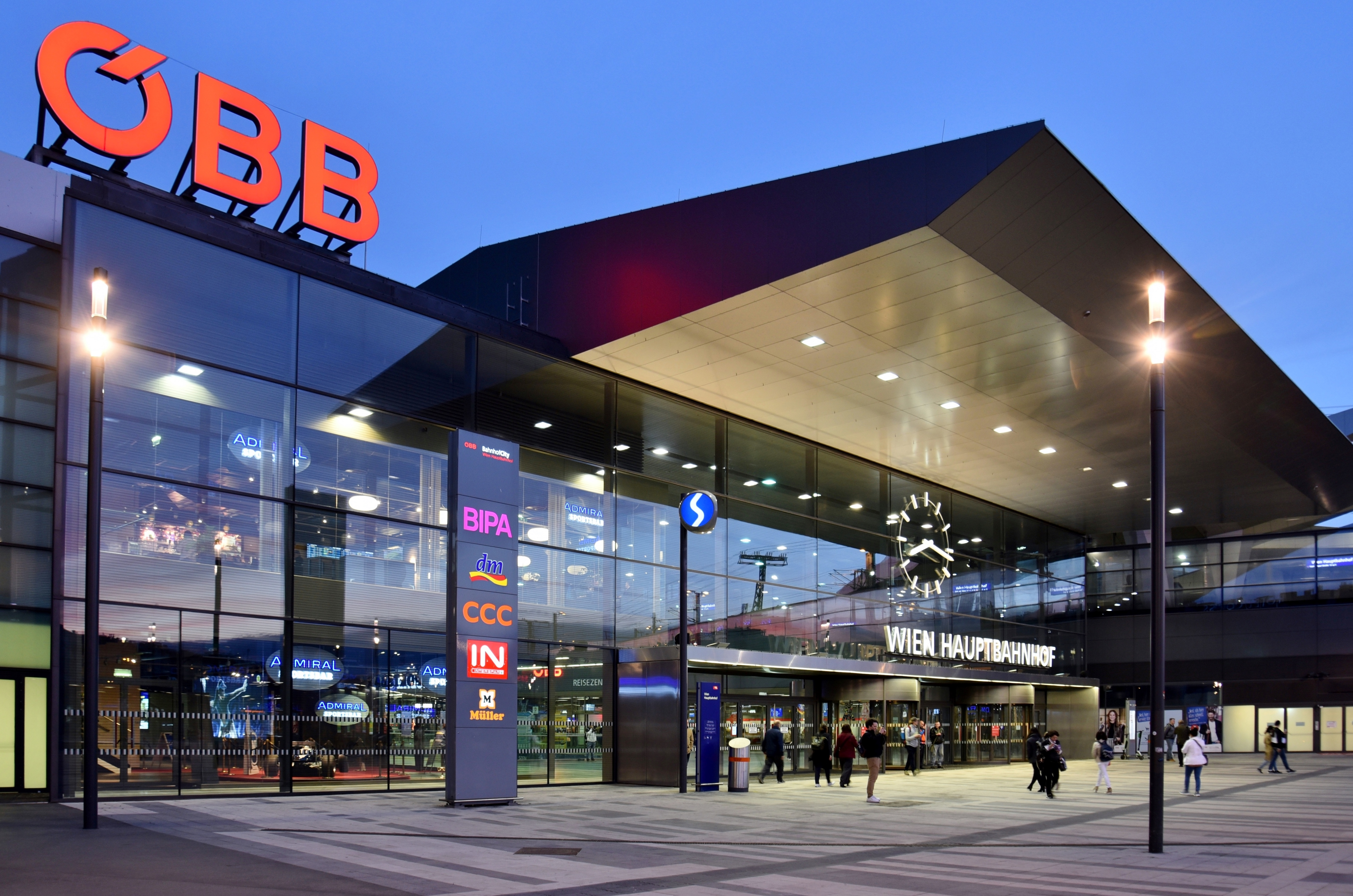 View of the western entrance to the main station building at Wien Hauptbahnhof